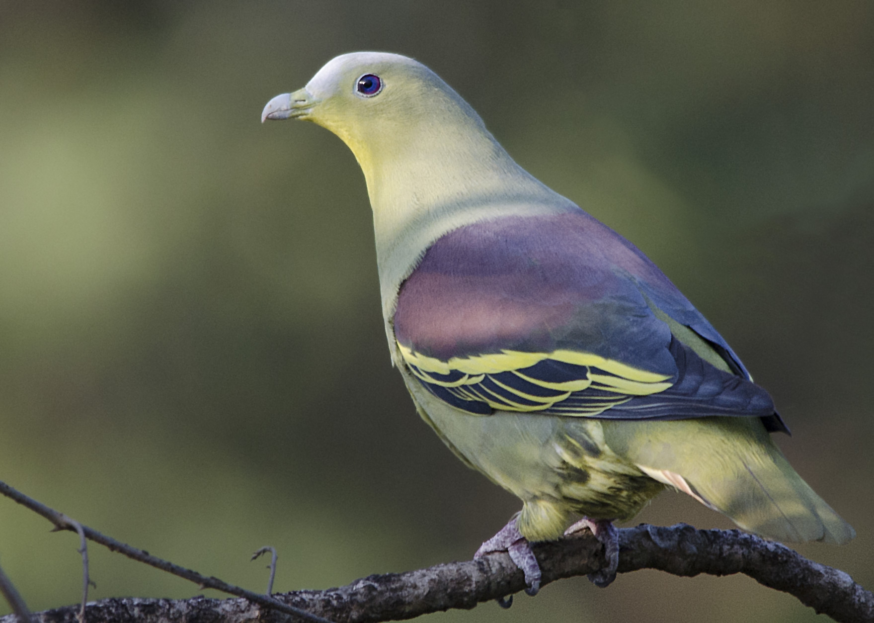 Treron (pompadora) affinis . Grey-fronted Green Pigeon from Karnala bird sanctuary.